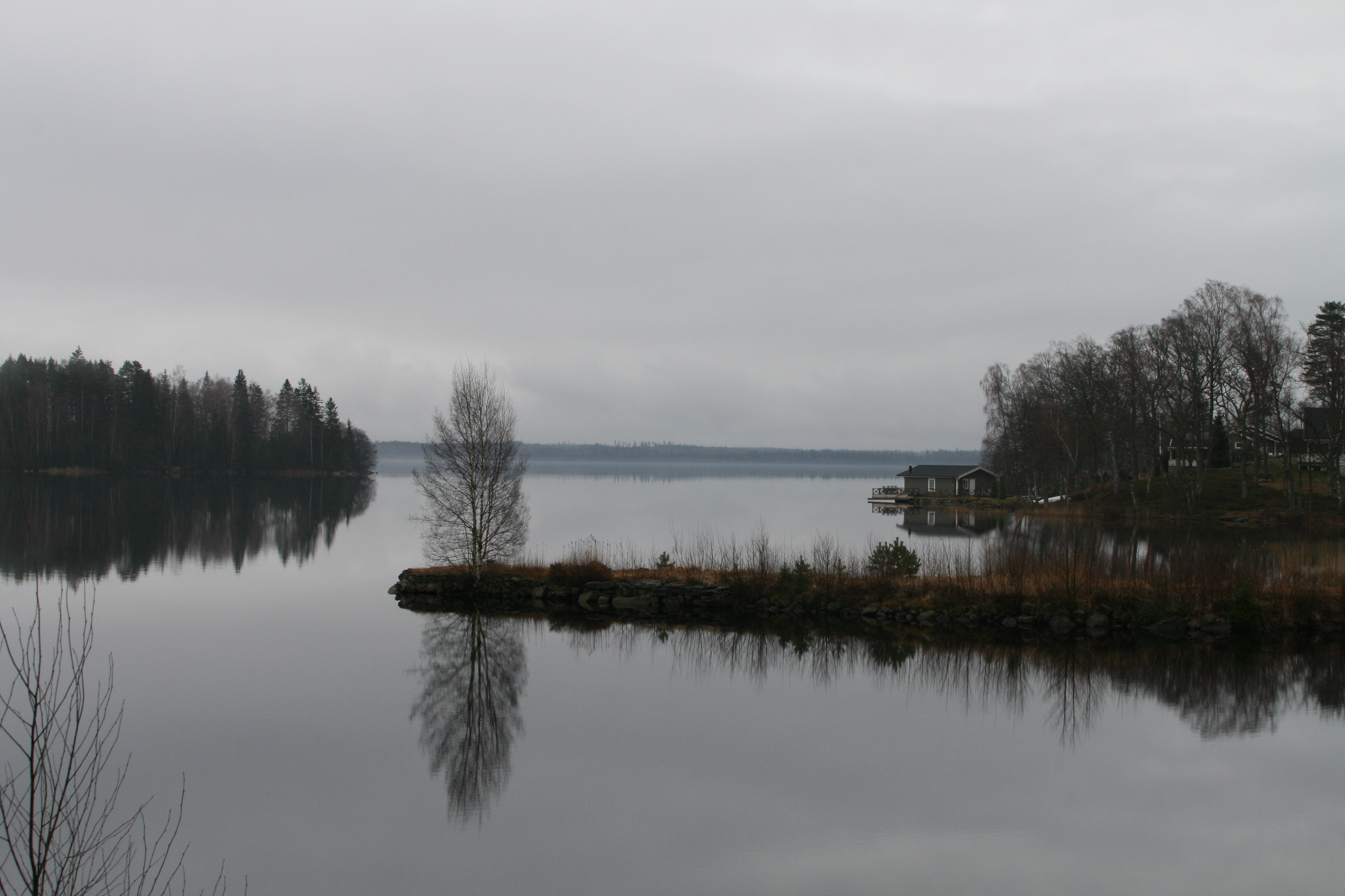 View of lake Bolmen from the west, at 56°59′38″N 13°39′29″E / 56.99389°N 13.65806°E.